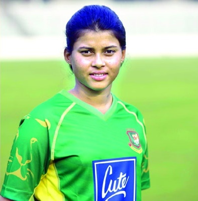 Top order batsman of Bangladesh National Women's Cricket: Sharmin Akhter